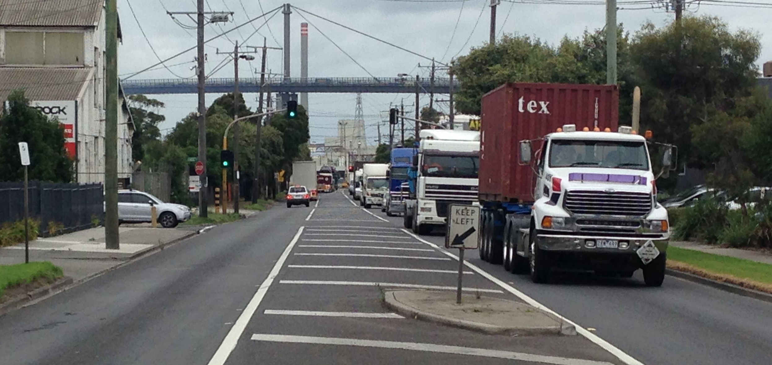 Trucks use Whitehall Street, Yarraville, Melbourne, Australia, on the route of the proposed West Gate Distributor road. The West Gate Bridge is in the background.